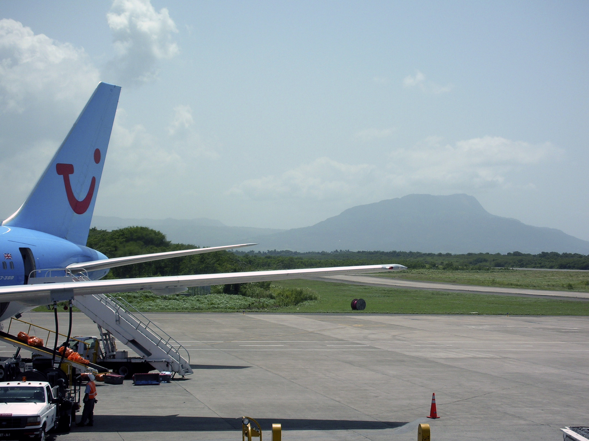 Pico Isabel de Torres from Puerto Plata Airport with a TUIfly 767-300